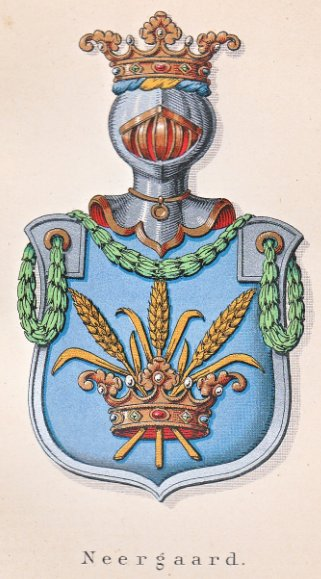 Coat of arms of the Neergaard family